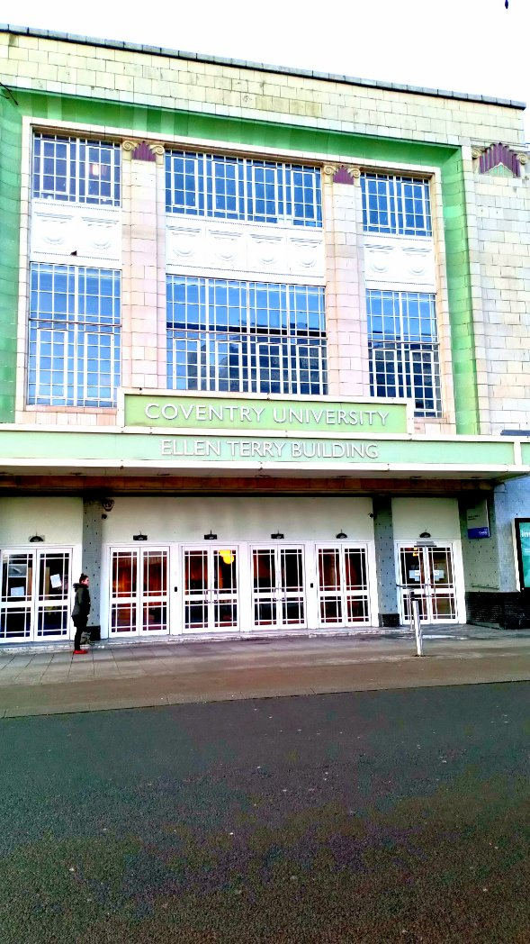 The Ellen Terry Building, Coventry University